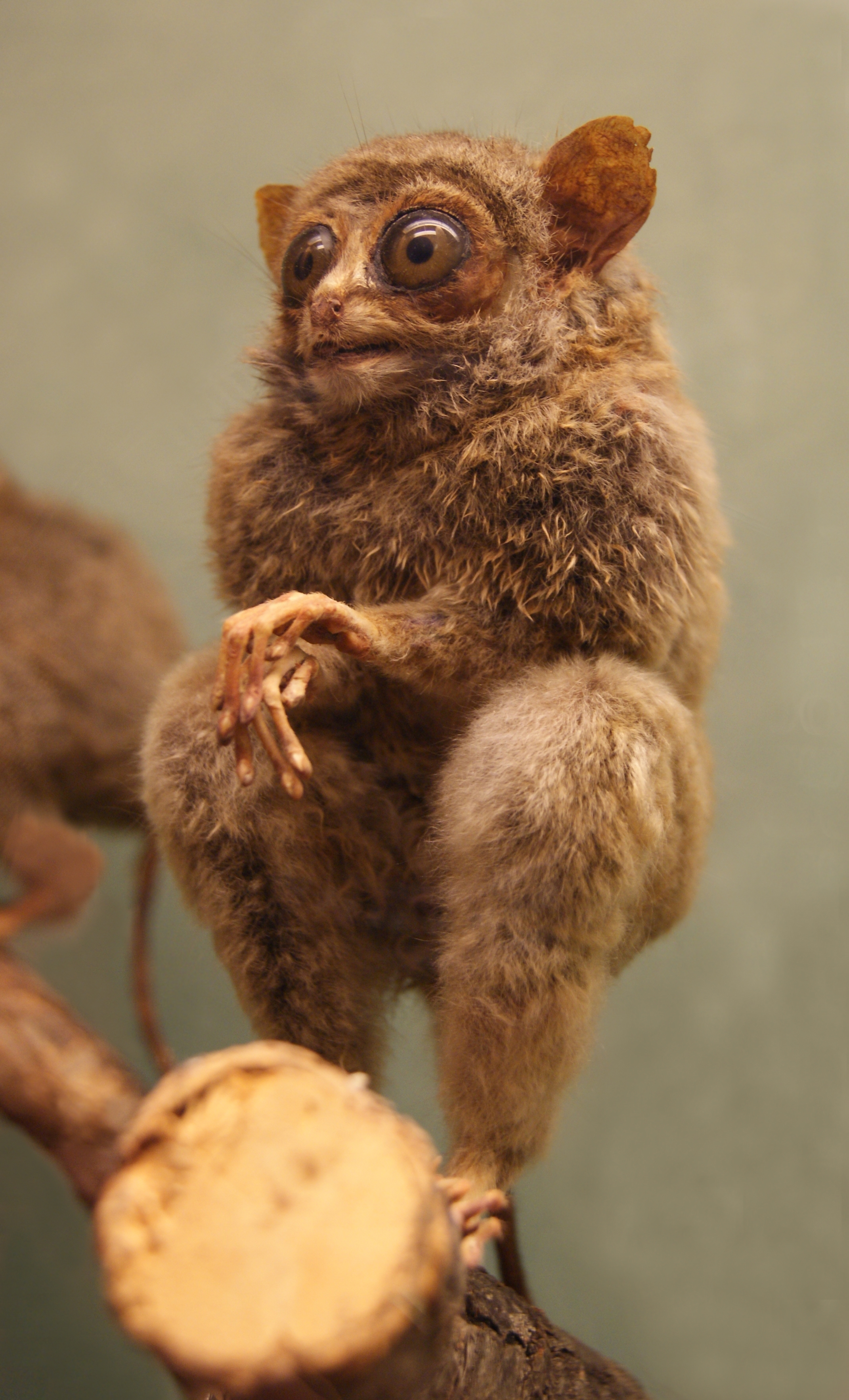 A mounted Spectral tarsier (Tarsius fuscus), a male, on display in Göteborgs Naturhistoriska museum (Gothenburg Museum of Natural History). It became part of the collections in 1917.